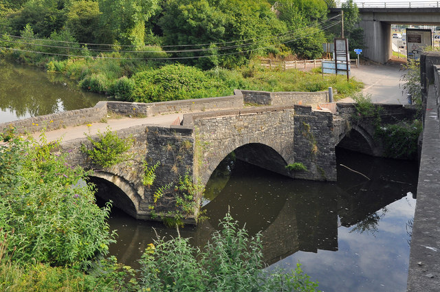 The old Leckwith road bridge crossing the River Ely - Cardiff. Beyond, the newer Leckwith by-pass - the A4232 to Cardiff Bay and the city.